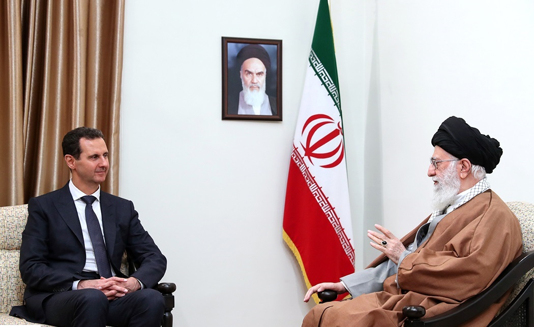 Ali Khamenei meets Bashar al-Assad in Tehran